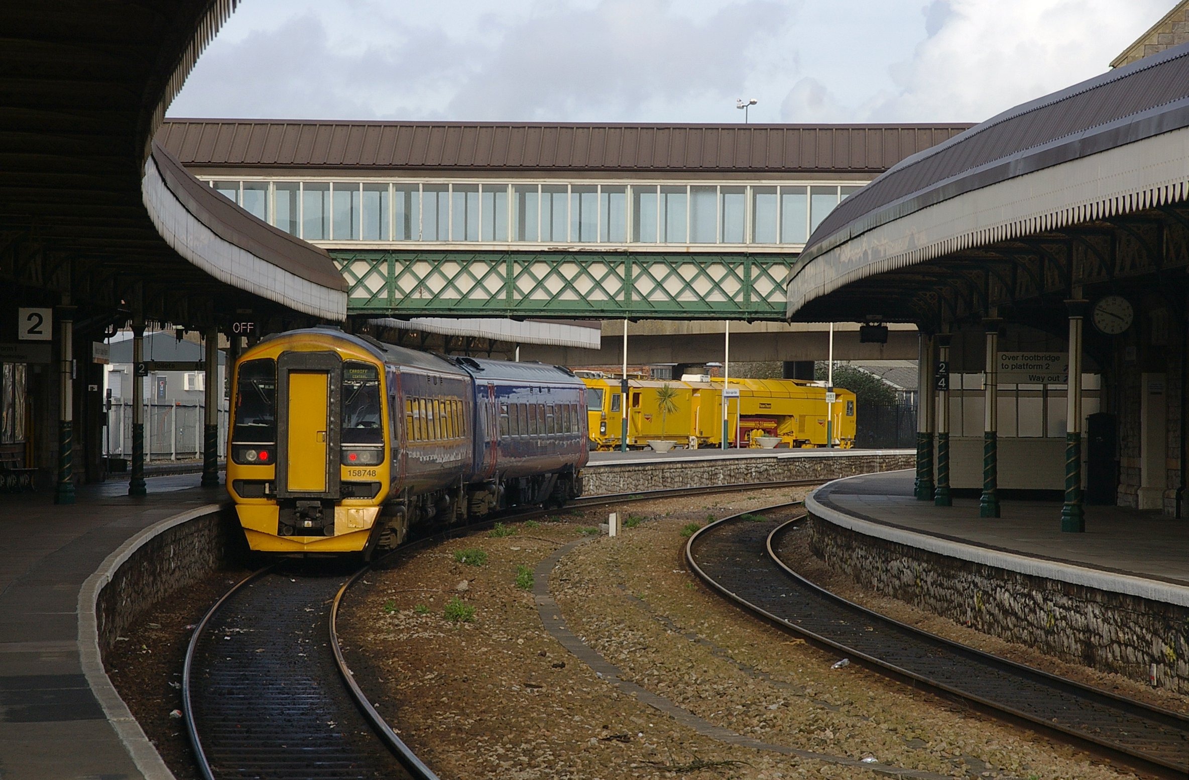 158748 departs Weston-super-Mare, bound for Cardiff Central.